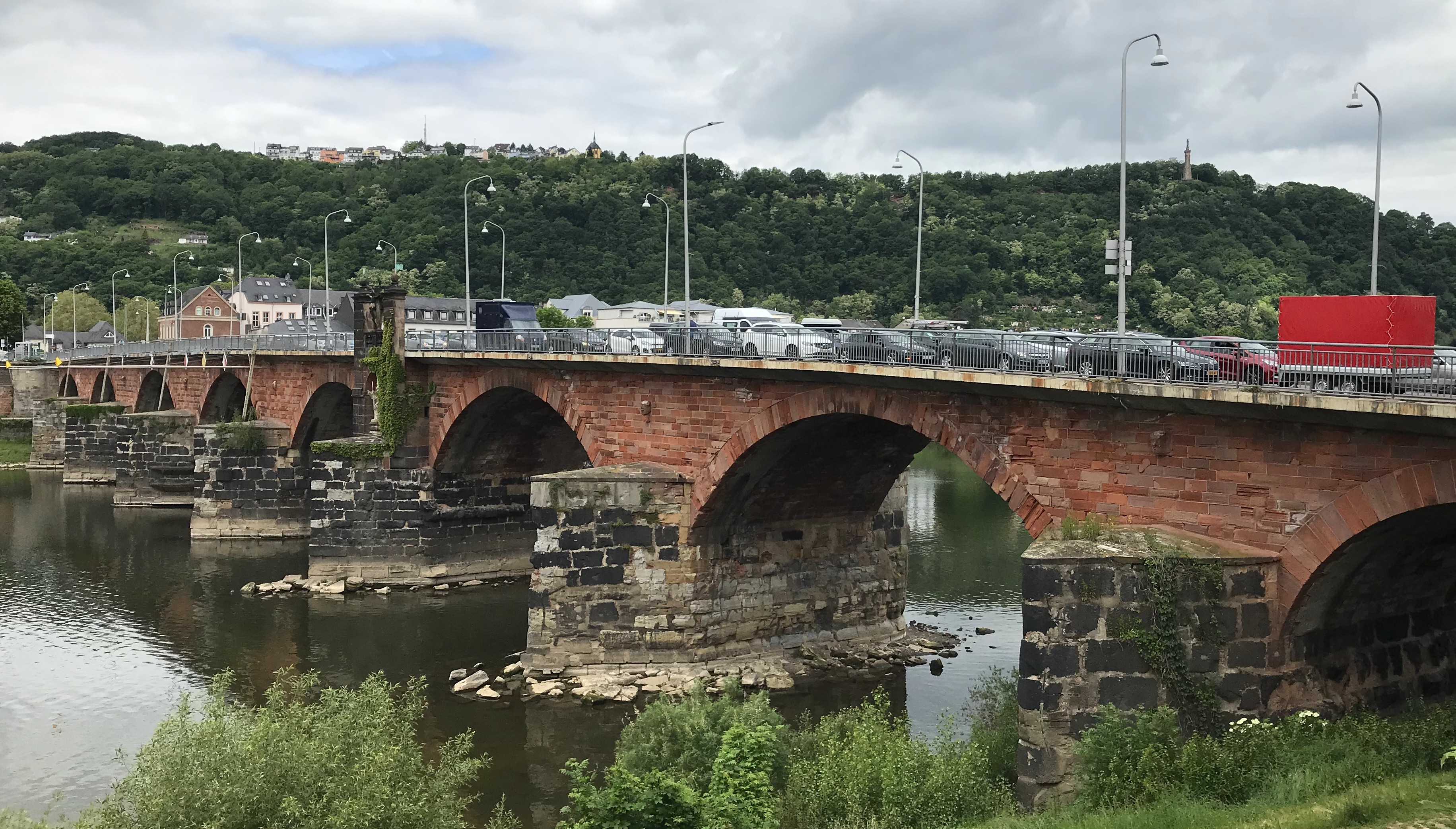 Roman bridge in Trier, Germany